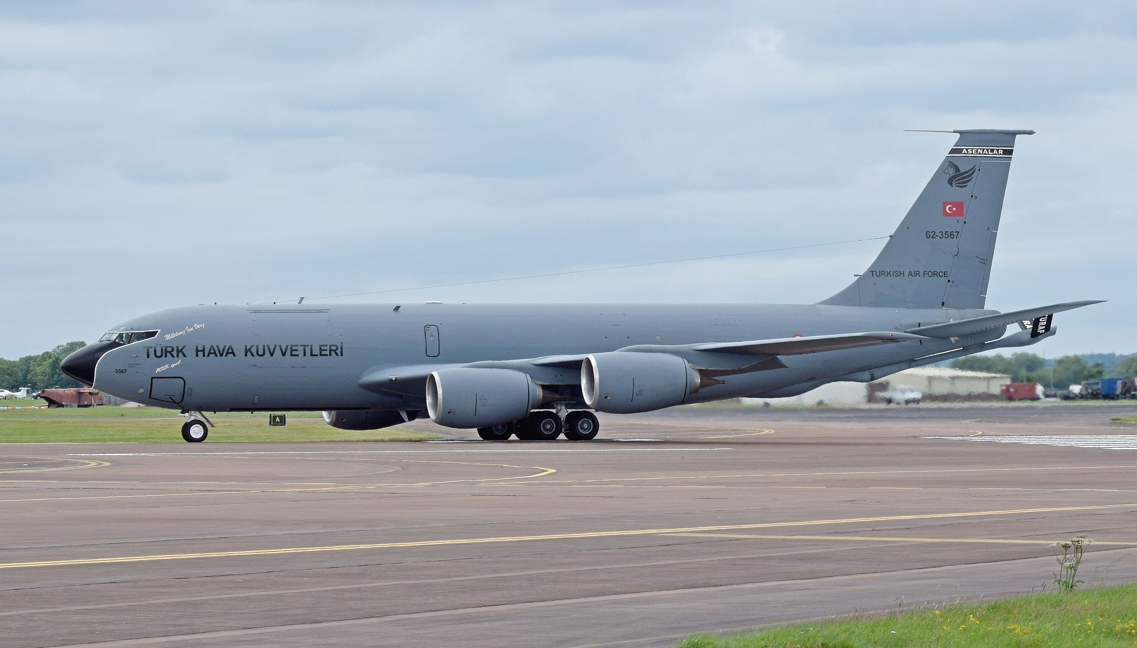 Boeing KC-135R Stratotanker (code 62-3567) of the Turkish Air Force arrives at the 2016 Royal International Air Tattoo, RAF Fairford, England.